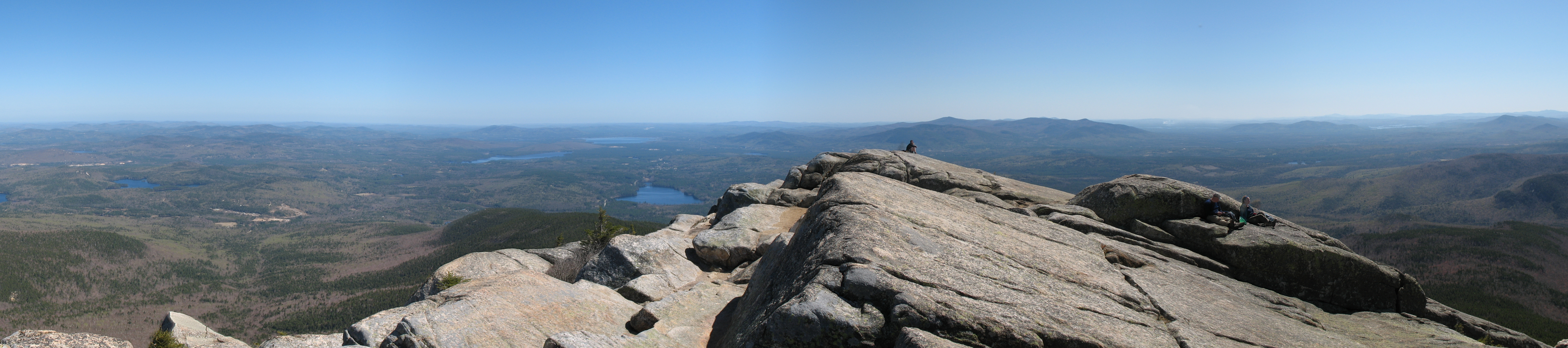 The image shows the view from the peak of Mt. Chocorua in New Hampshire facing a south direction.